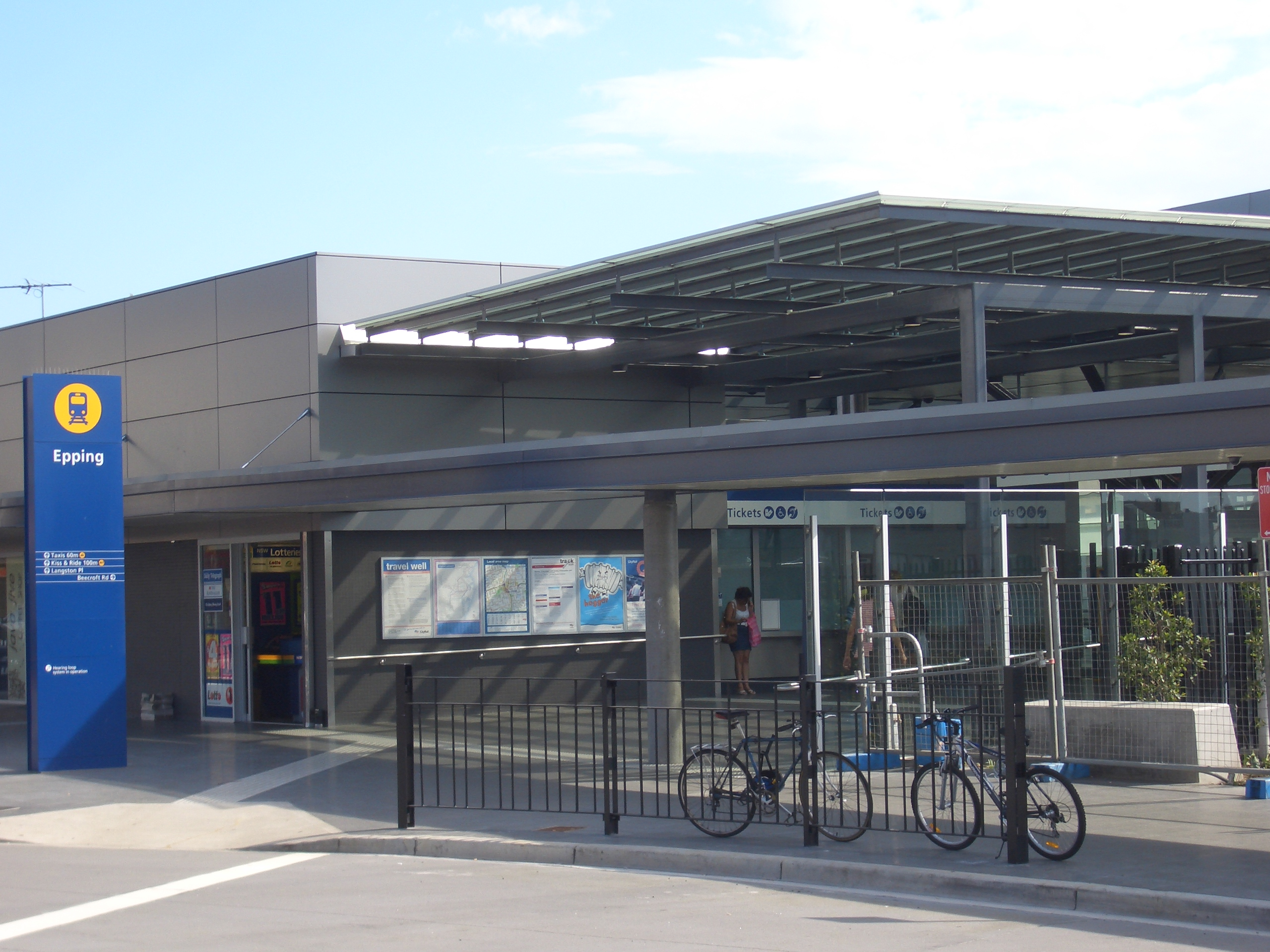 Epping Railway Station